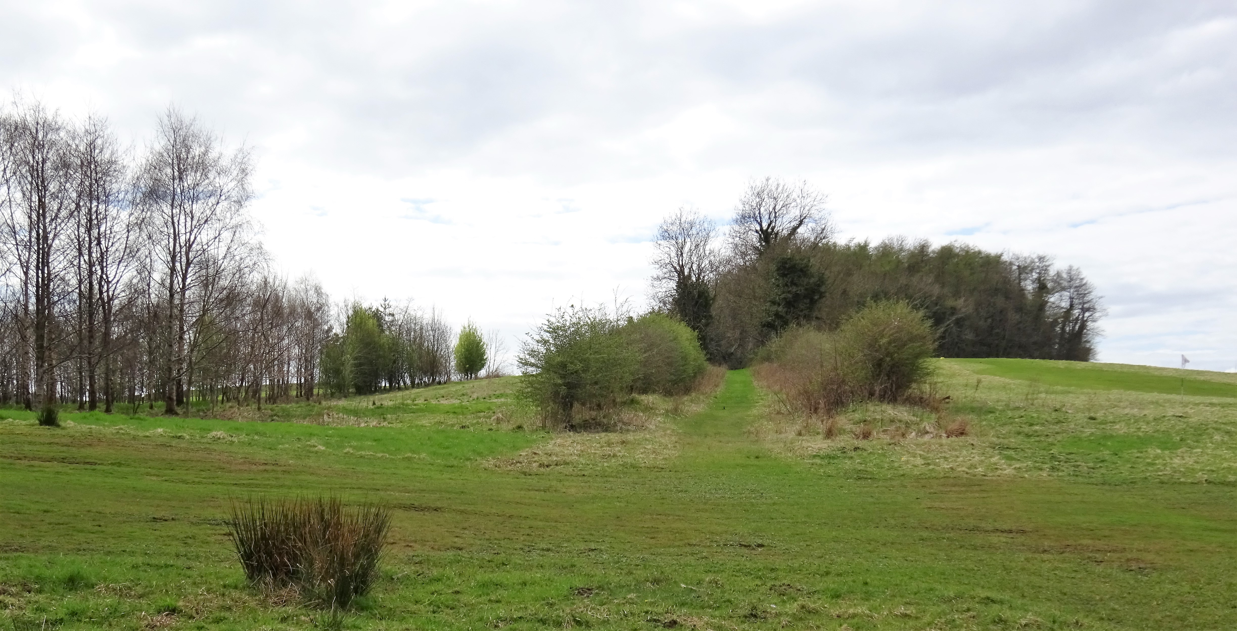 Blacksyke Tower waggonway, view to the west. Caprington, East Ayrshire. The course of the old waggonway to Blacksyke Pit.